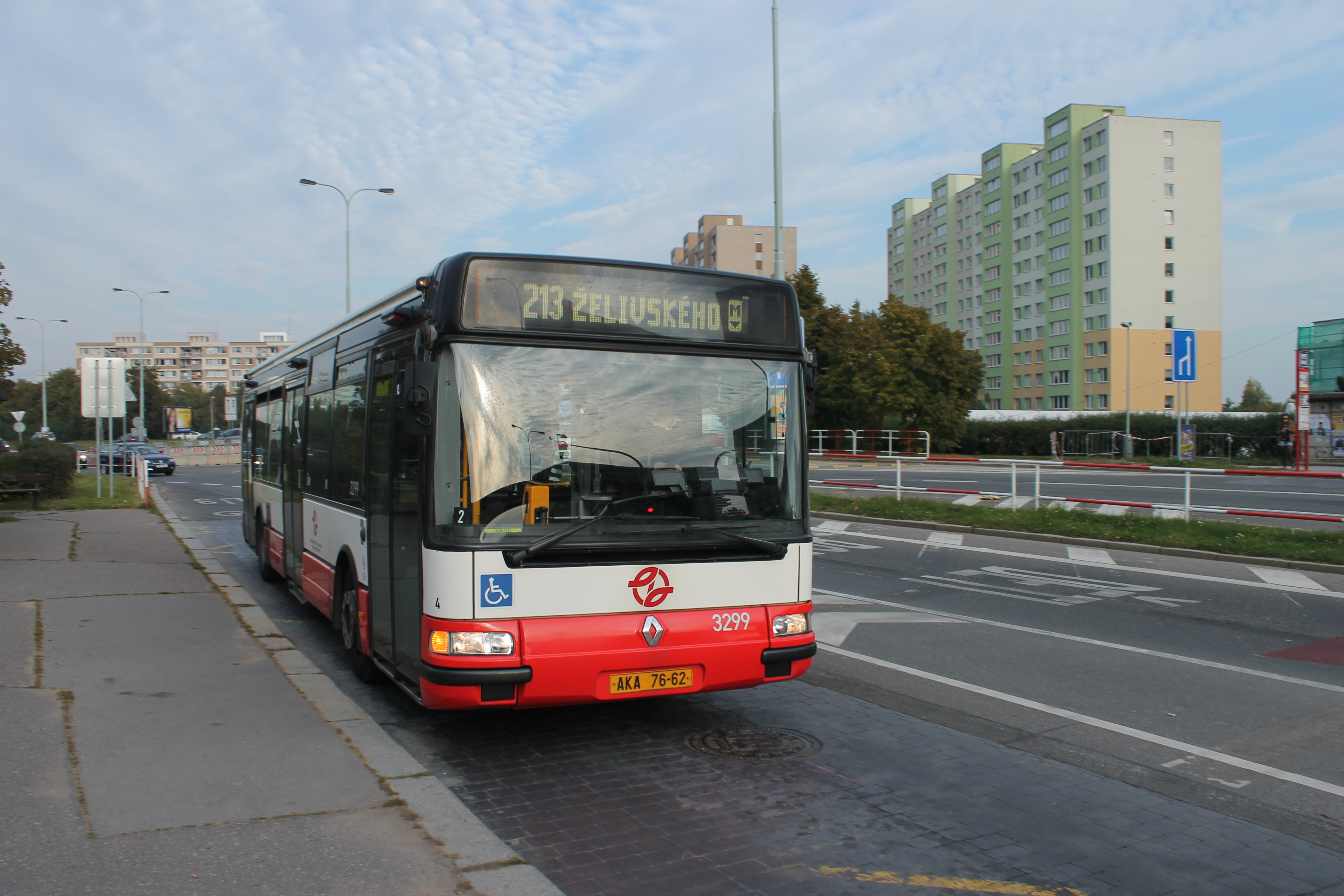 Bus Irisbus Citybus 12M, number 3299, line 213, Metodějova stop, Prague